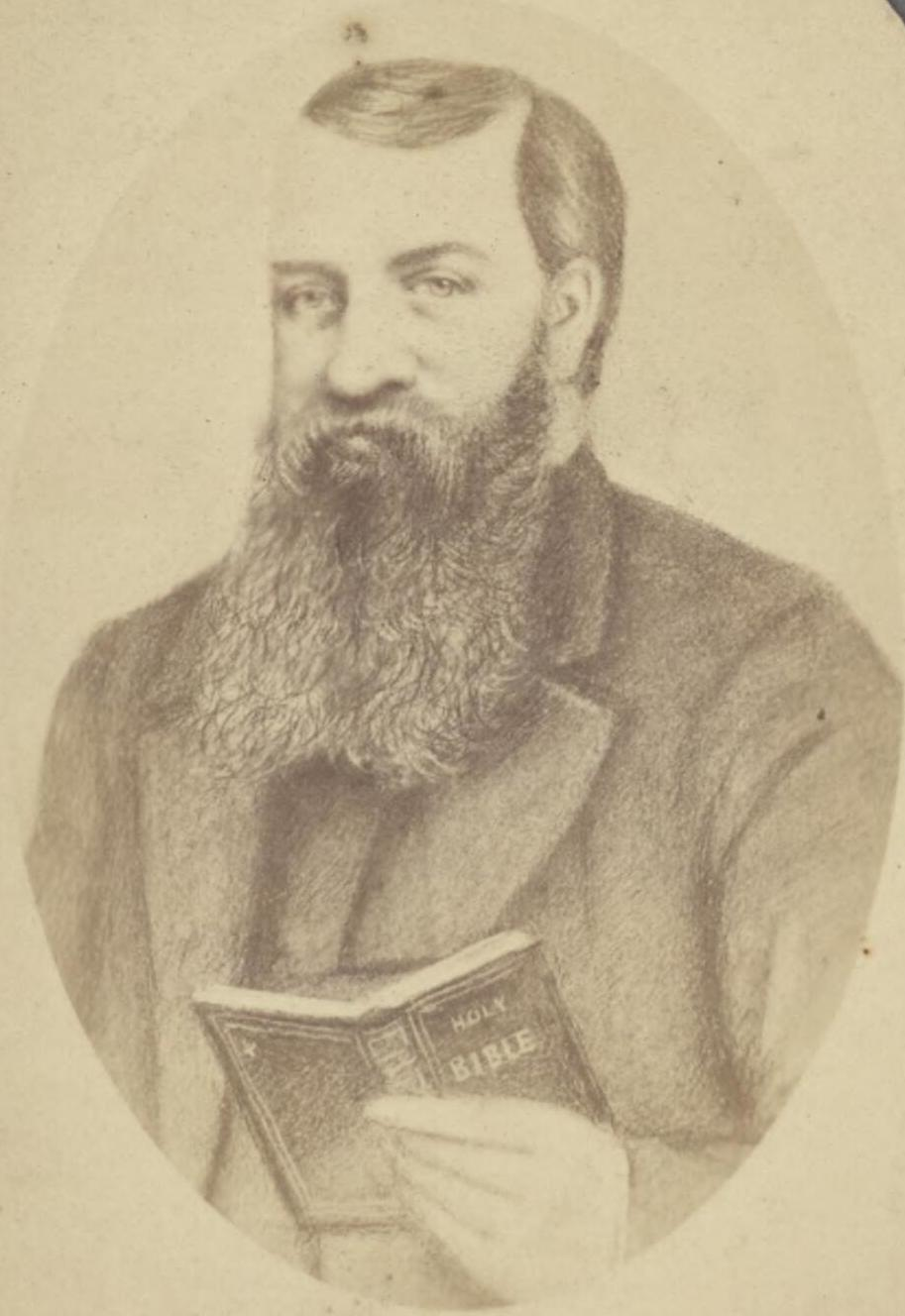 A portrait from the Welsh Portrait Collection at the National Library of Wales. Depicted person: Dwight Lyman Moody – American evangelist and publisher